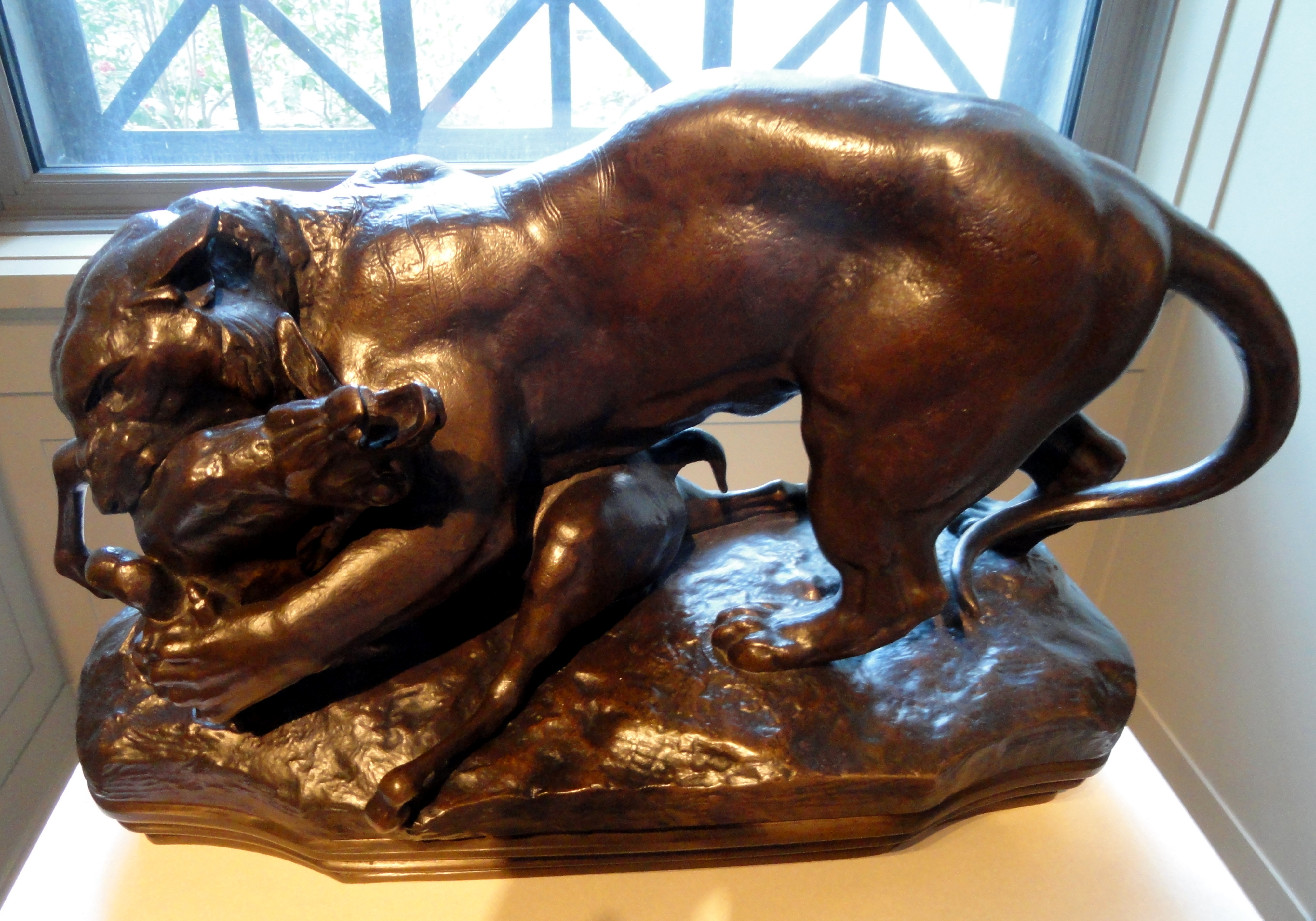 Tiger Surprising an Antelope, by Antoine-Louis Barye, model c. 1831, cast after 1855, bronze - National Gallery of Art, Washington, DC, USA. This artwork is in the public domain because the sculptor died more than 70 years ago.